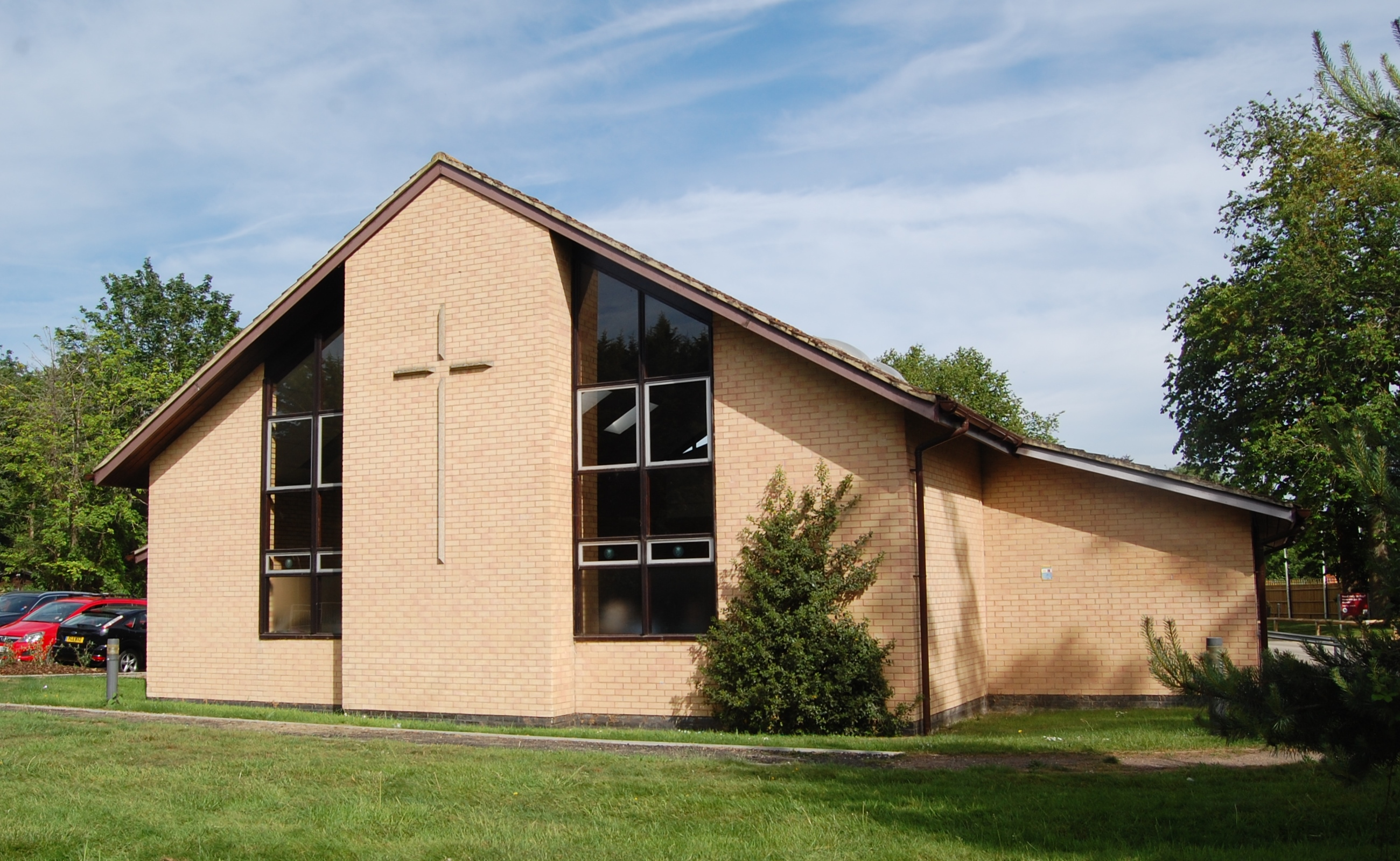 St Swithun Wells Church, Allington Lane, Fair Oak, Borough of Eastleigh, Hampshire, England. A Roman Catholic parish church serving Fair Oak and Bishopstoke.